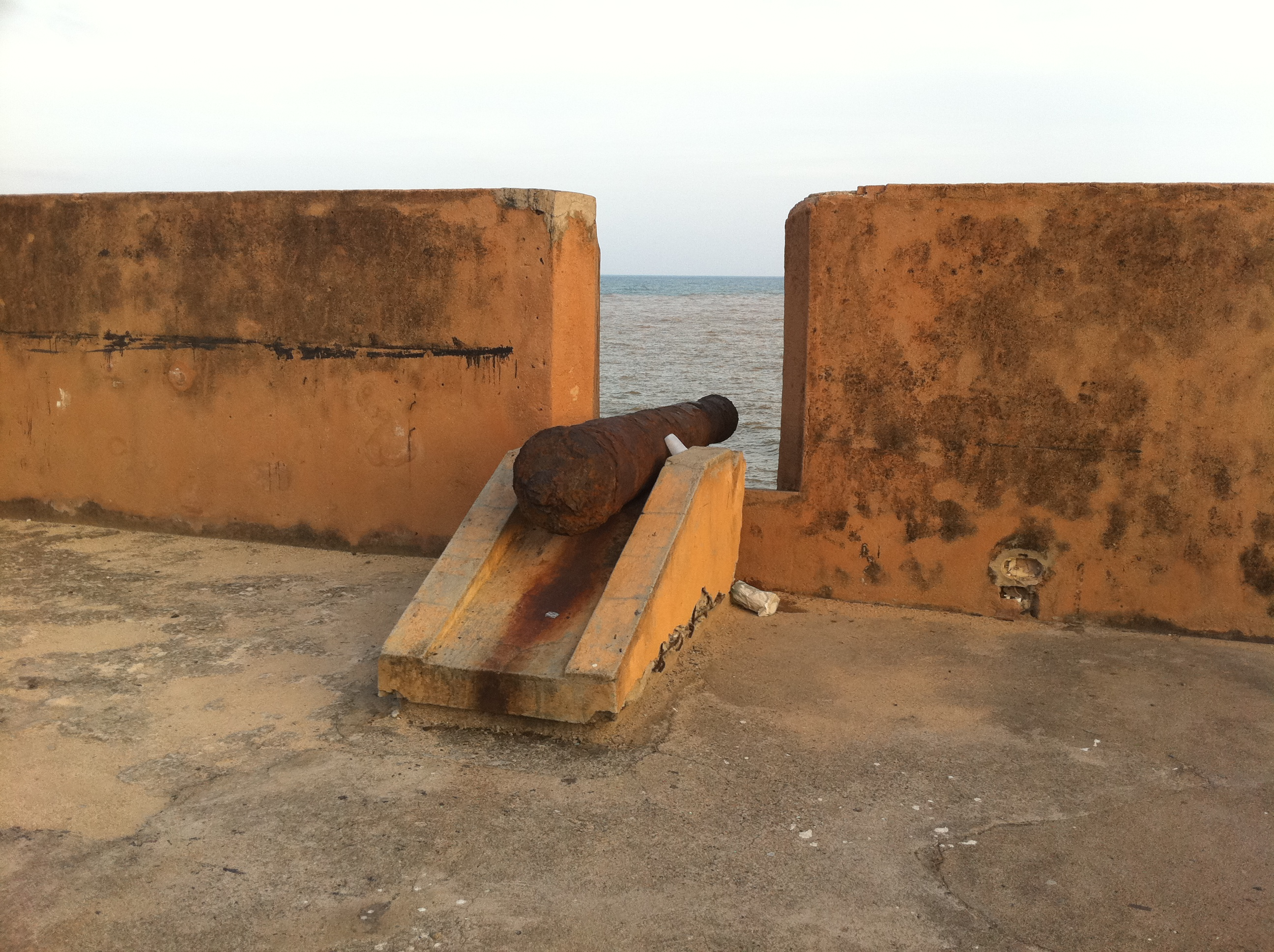 Cannon on Coast Santo Domingo